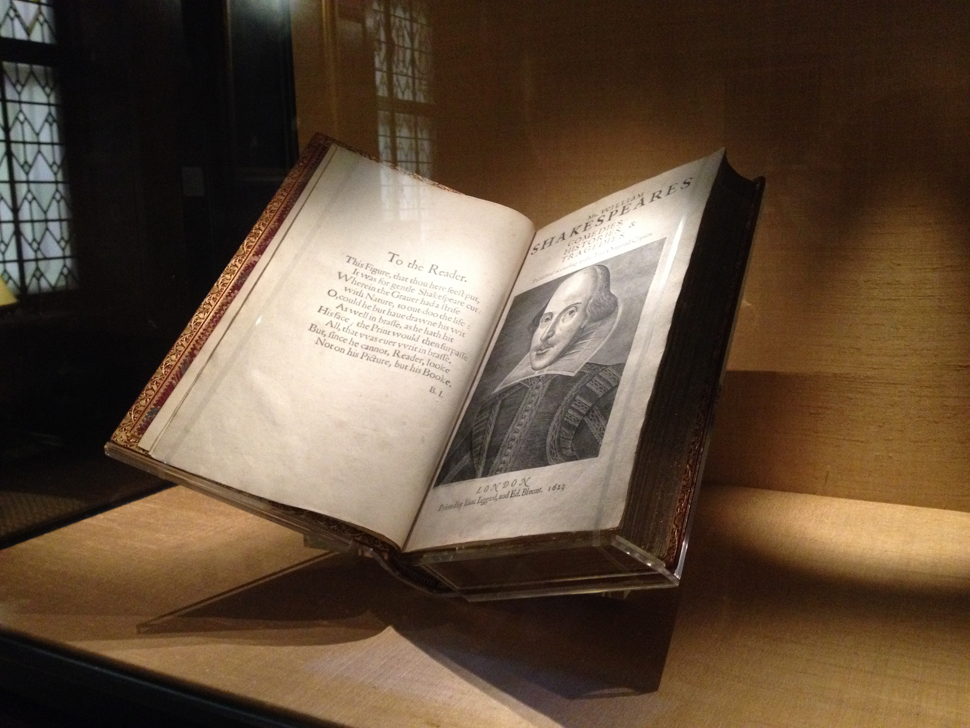 behind glass at the Folger Shakespeare Library in Washington D.C.